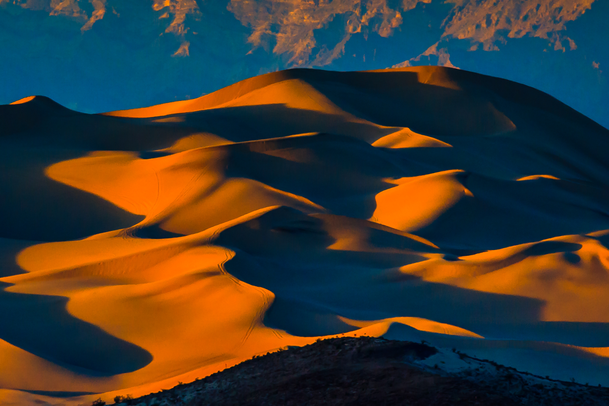 Sundown on the Dumont Dunes from the SW...near Shoshone, California